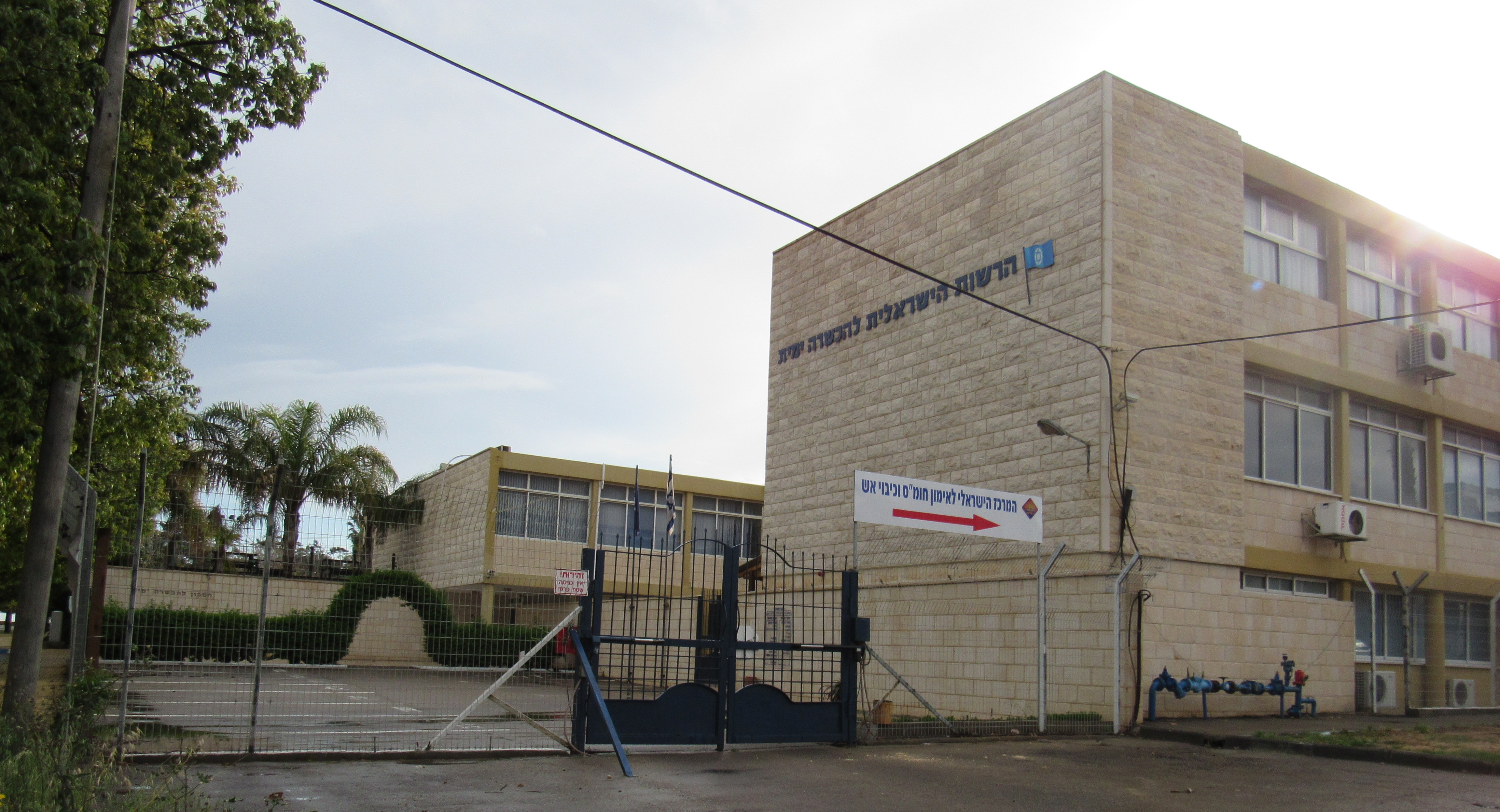 The Marine Education and Training Authority (11 April, 2015)